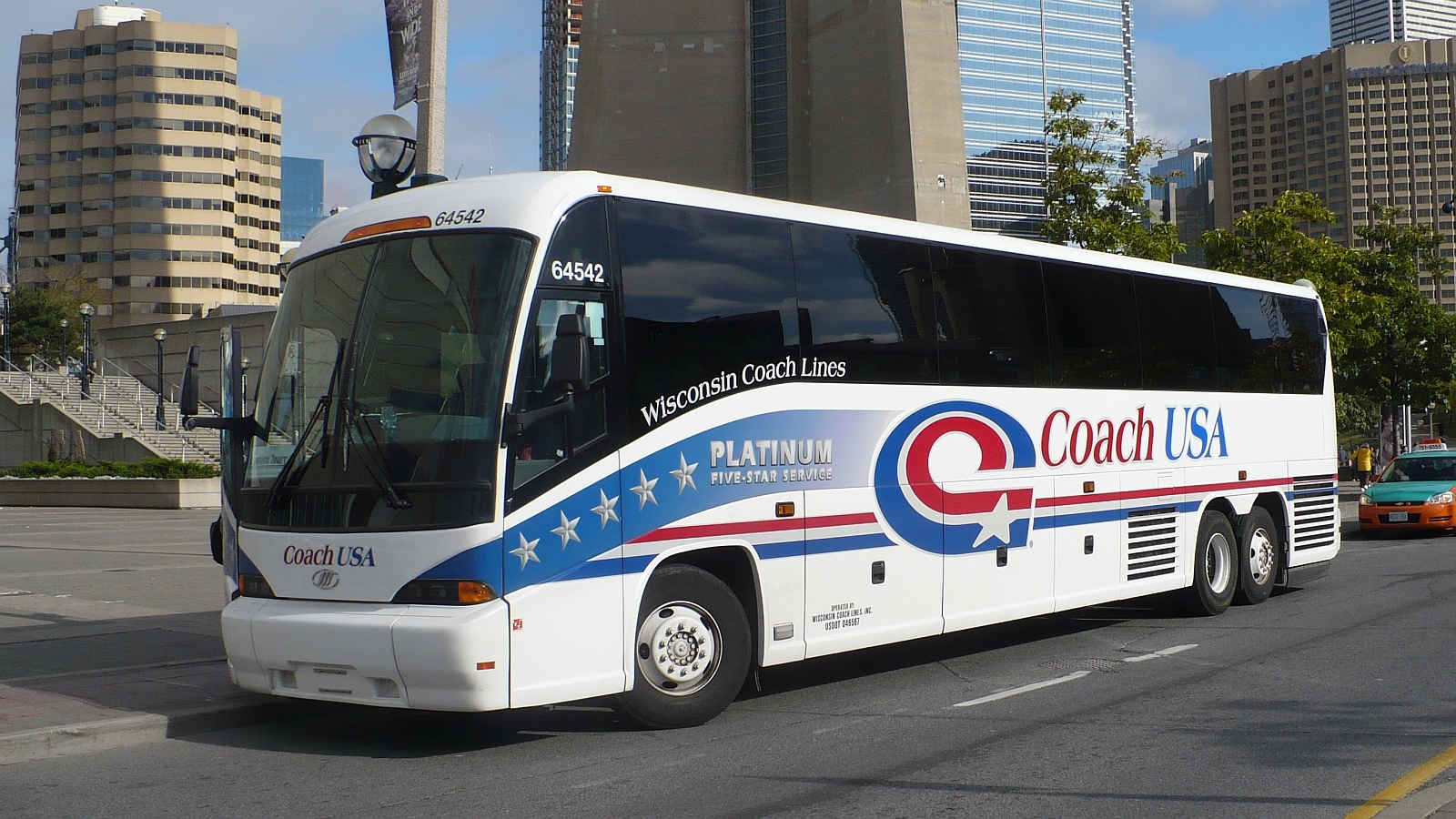 Coach USA branded Wisconsin Coach Lines number 64542 on service for Diamond Tours